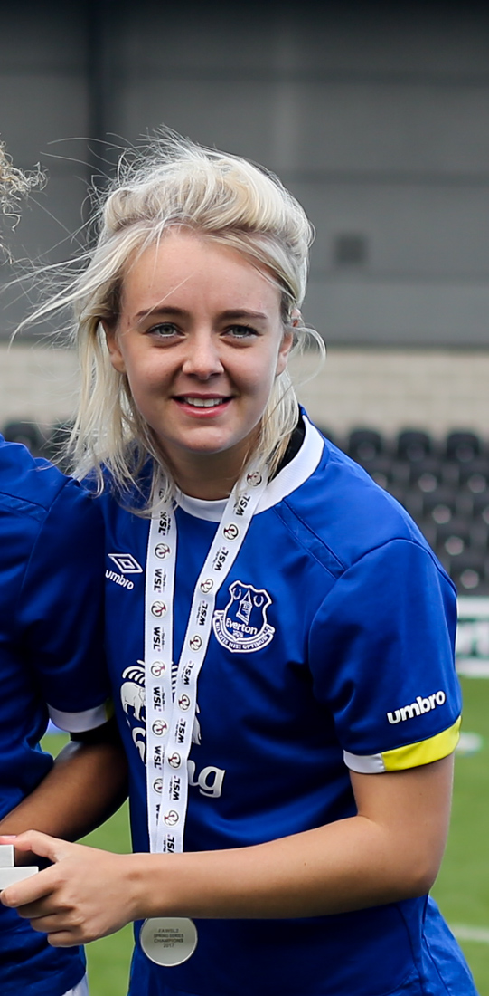 London Bees v Everton LFC, 20 May 2017